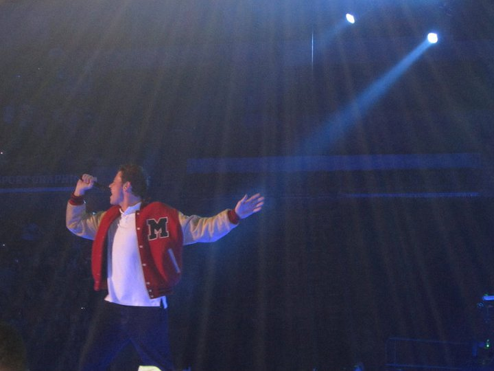 Cory Monteith performs Jessie's Girl on stage in Indianapolis in 2011.